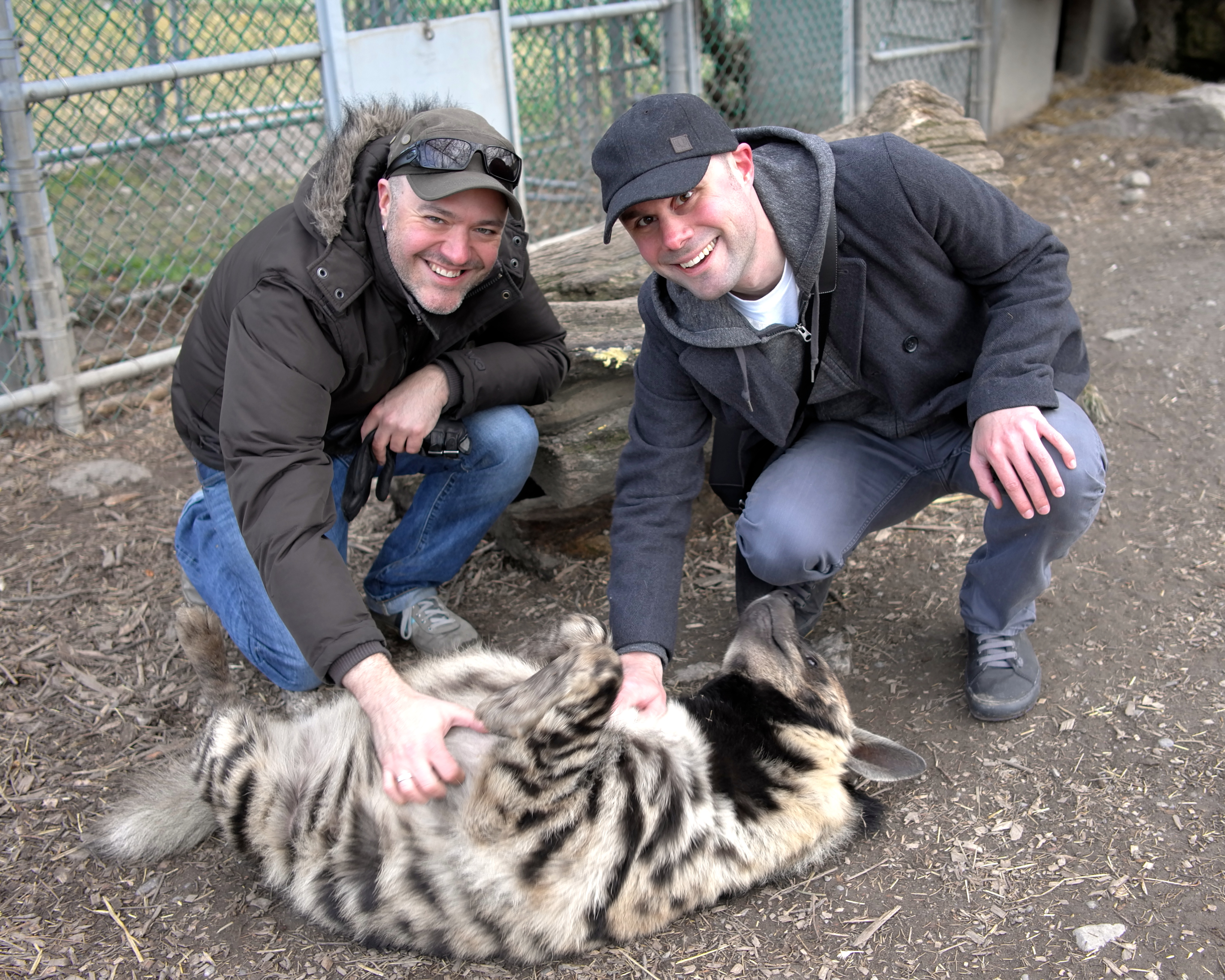 Striped hyena at Jungle Cat World, Orono, Ontario.